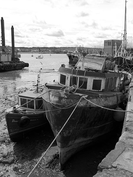 black and white shot of skeeries harbour on low tide.